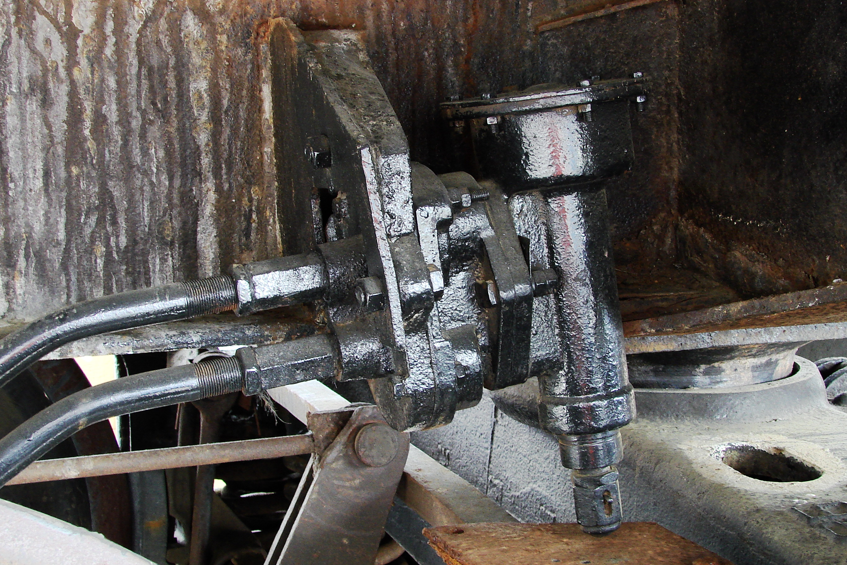 Cargo automode